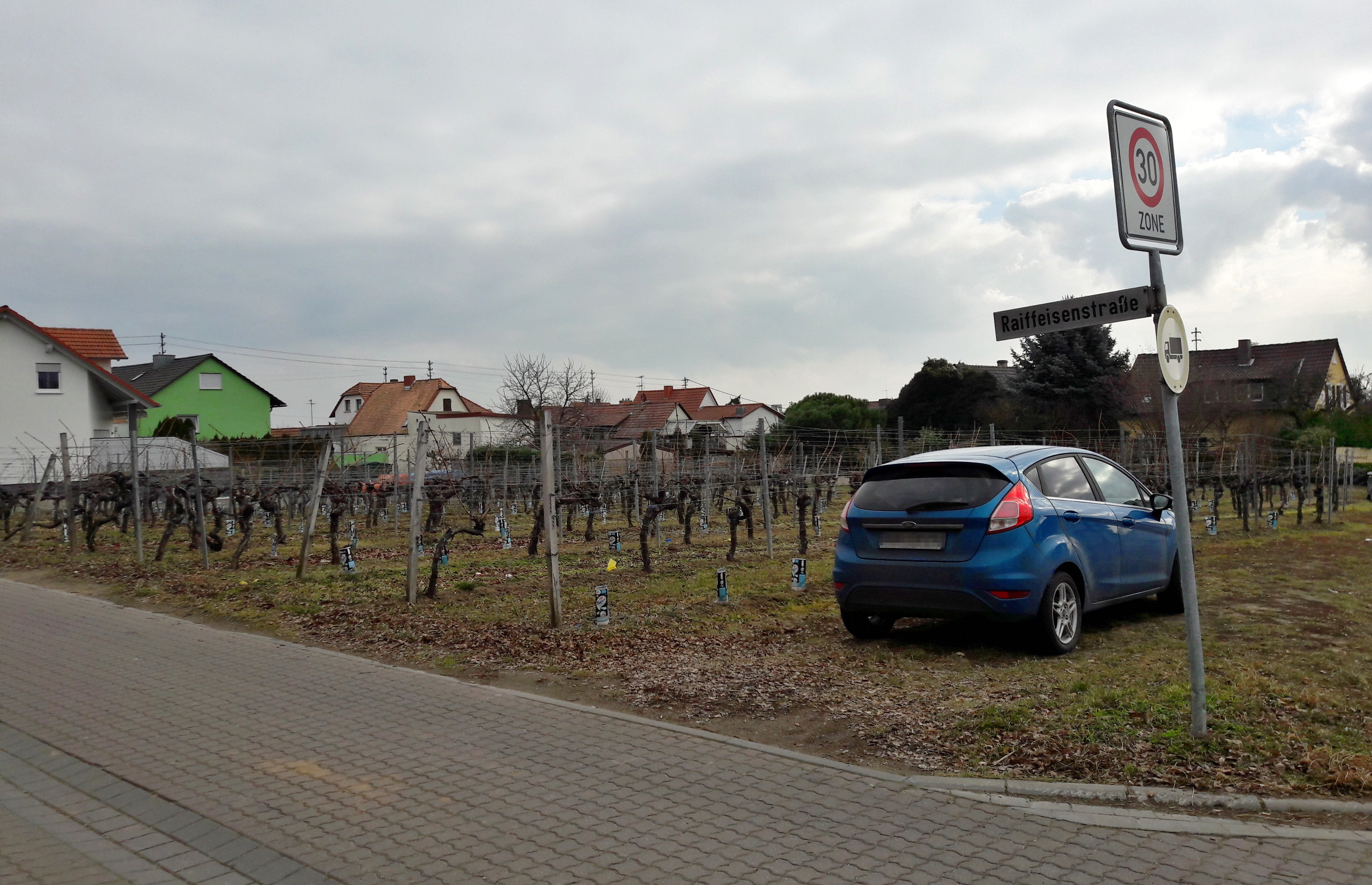 Vineyard in Erpolzheim, alleged place of street "Am Kirschgarten" on Bing maps